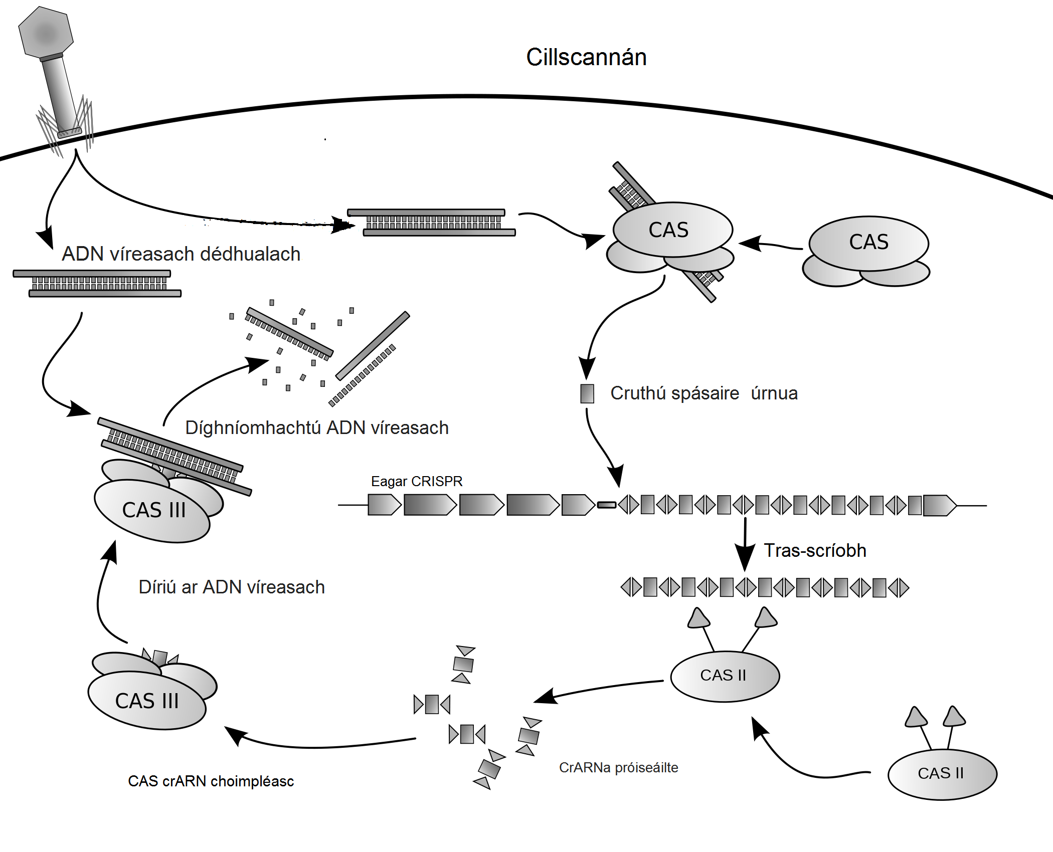 Gaelic version